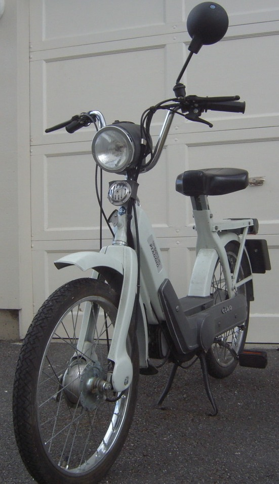 The norwegian wiki-user "Steelz" moped. A Vespa Piaggio Ciao '90.